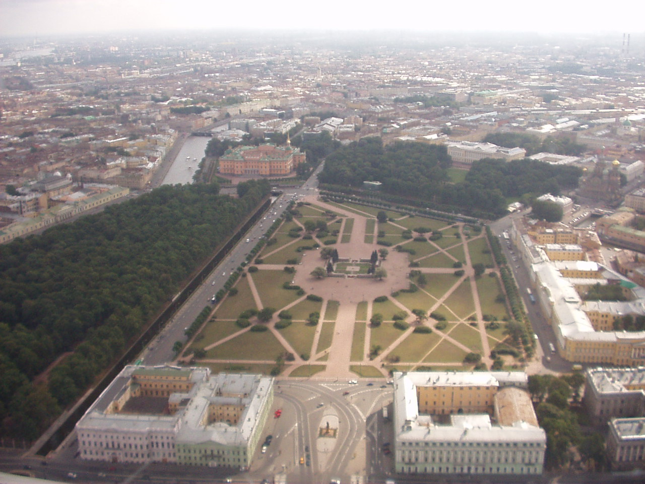 Overhead view of Mars Field, Saint Petersburg, Russia